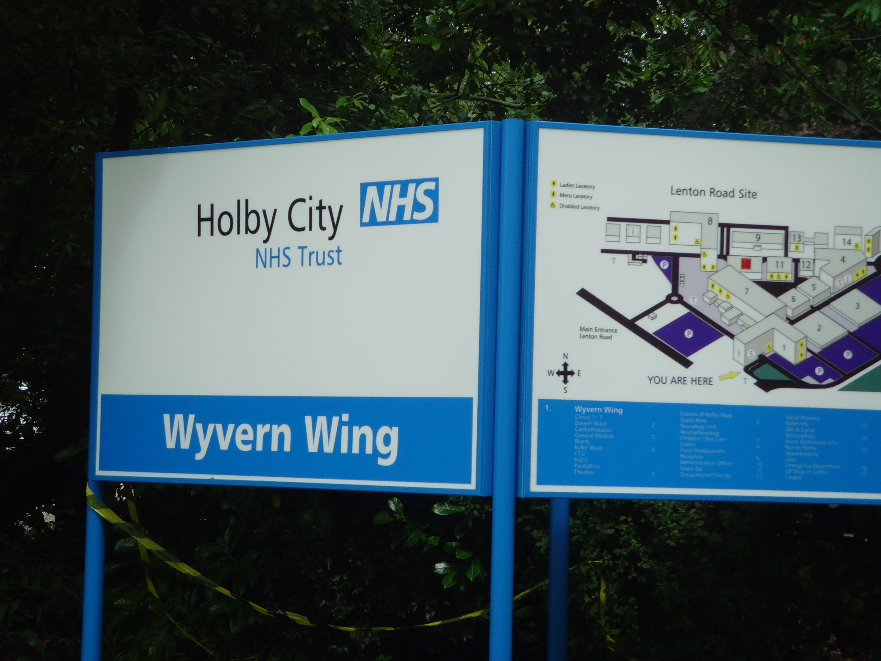 The Holby City fictional hospital sign, at the BBC's Elstree Studios.